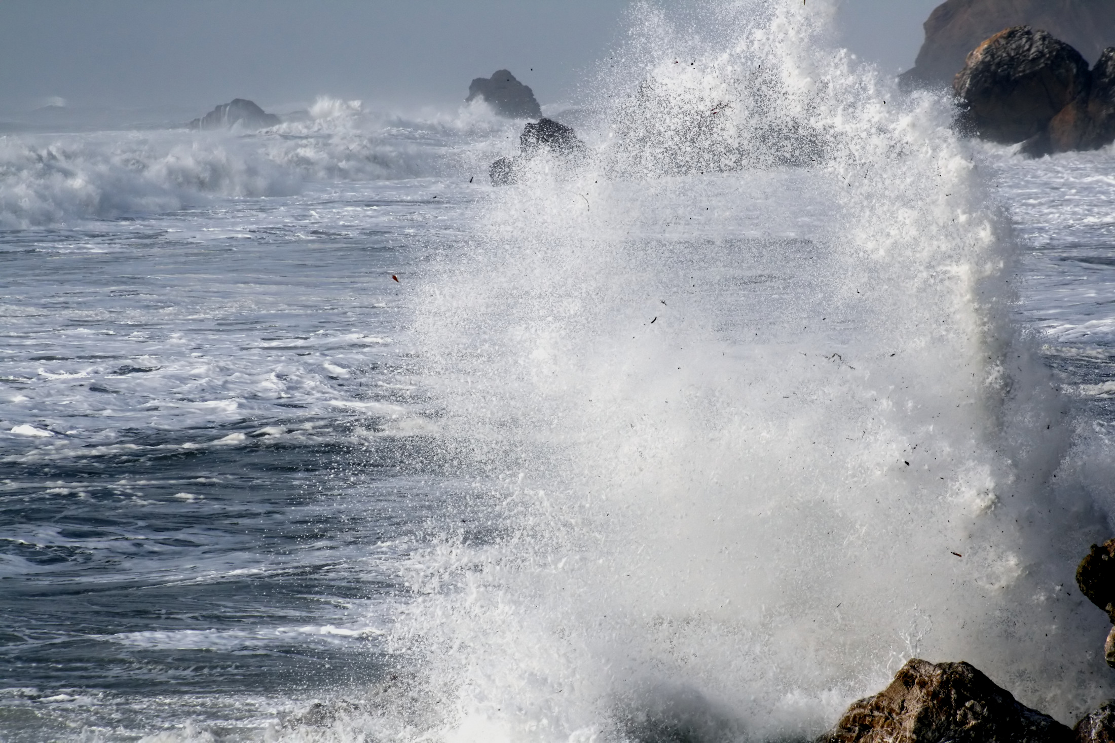 Sea Storm in Pacifica, California